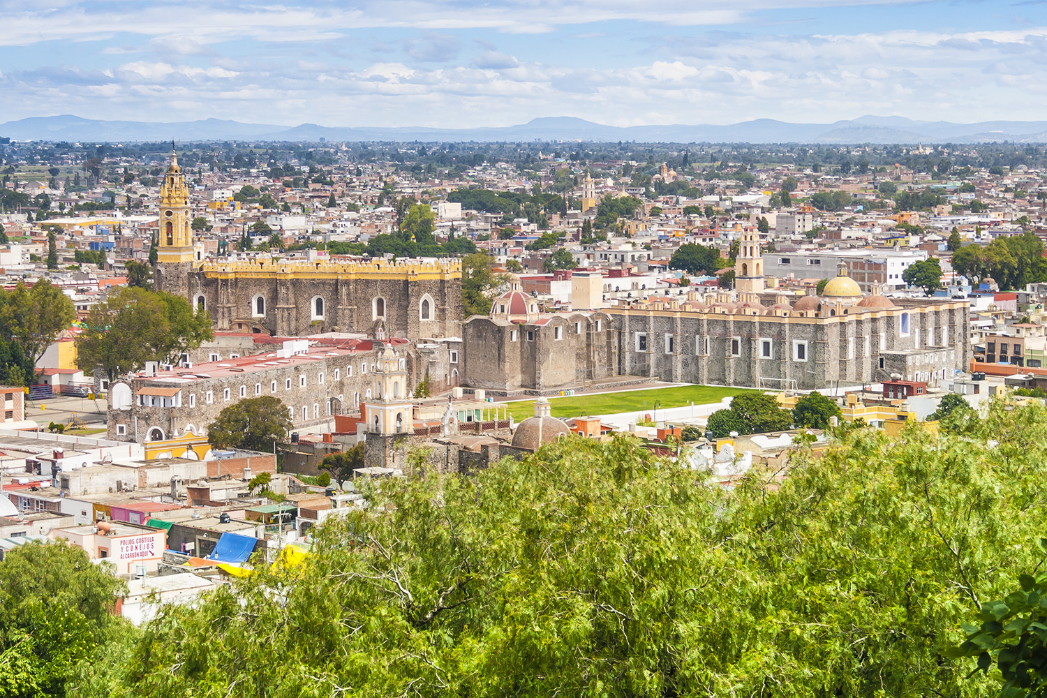 Cholula Real Chapel